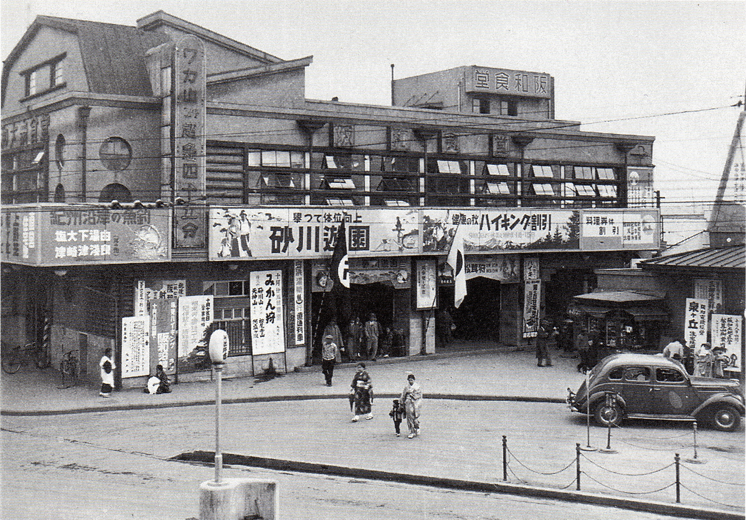 Hanwa-Tennoji station of Hanwa Electric Railway.